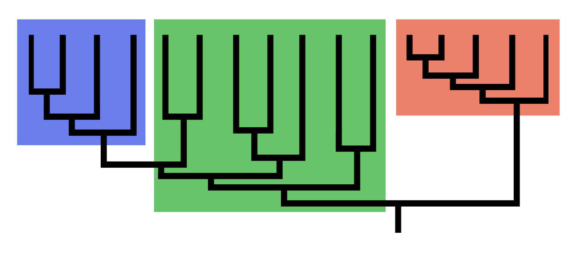 Hypothetical cladogram showing two clades (red and blue) and a grade (green).